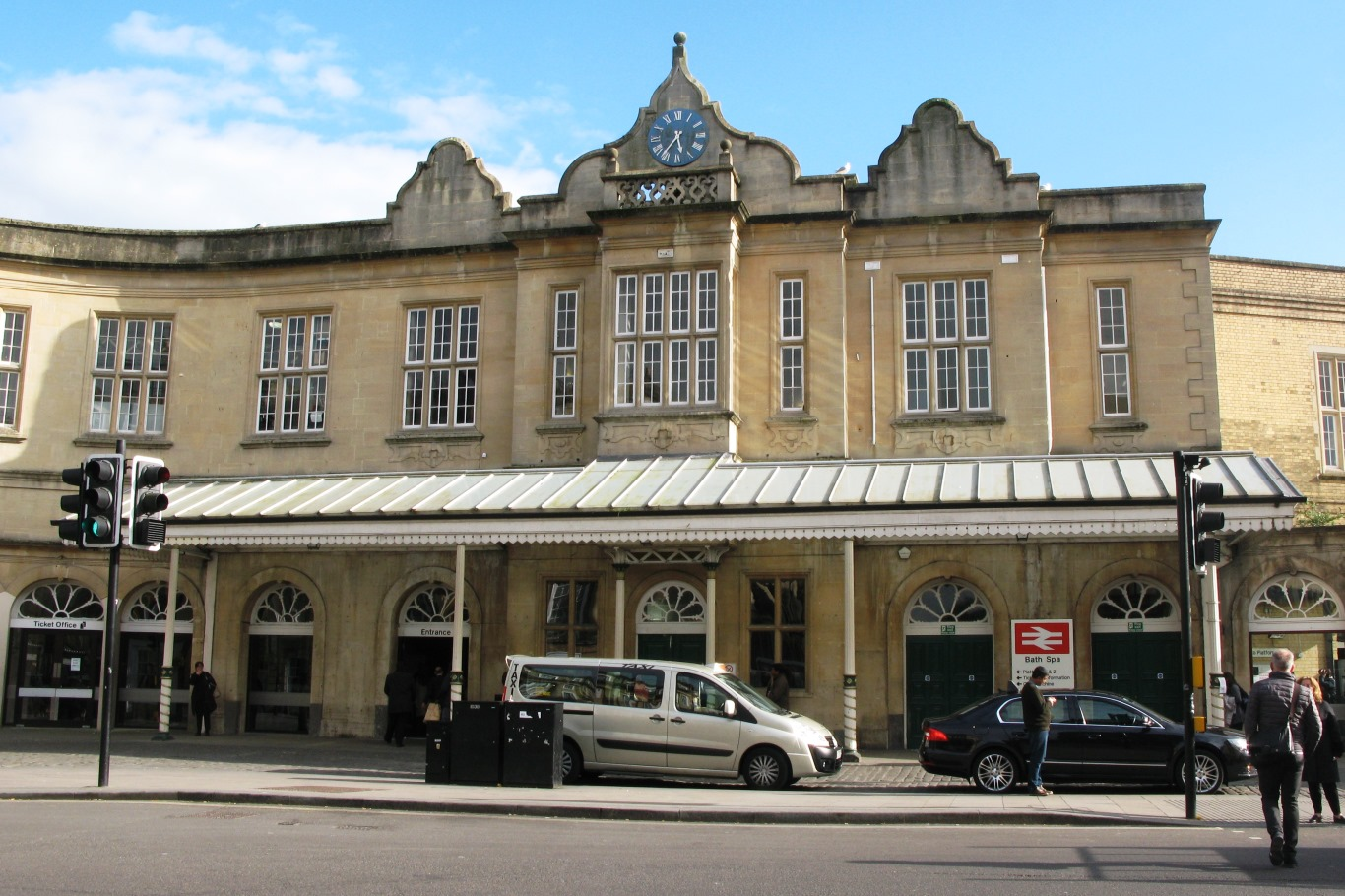 The main entrance to Bath Spa railway station on Dorchester Street.